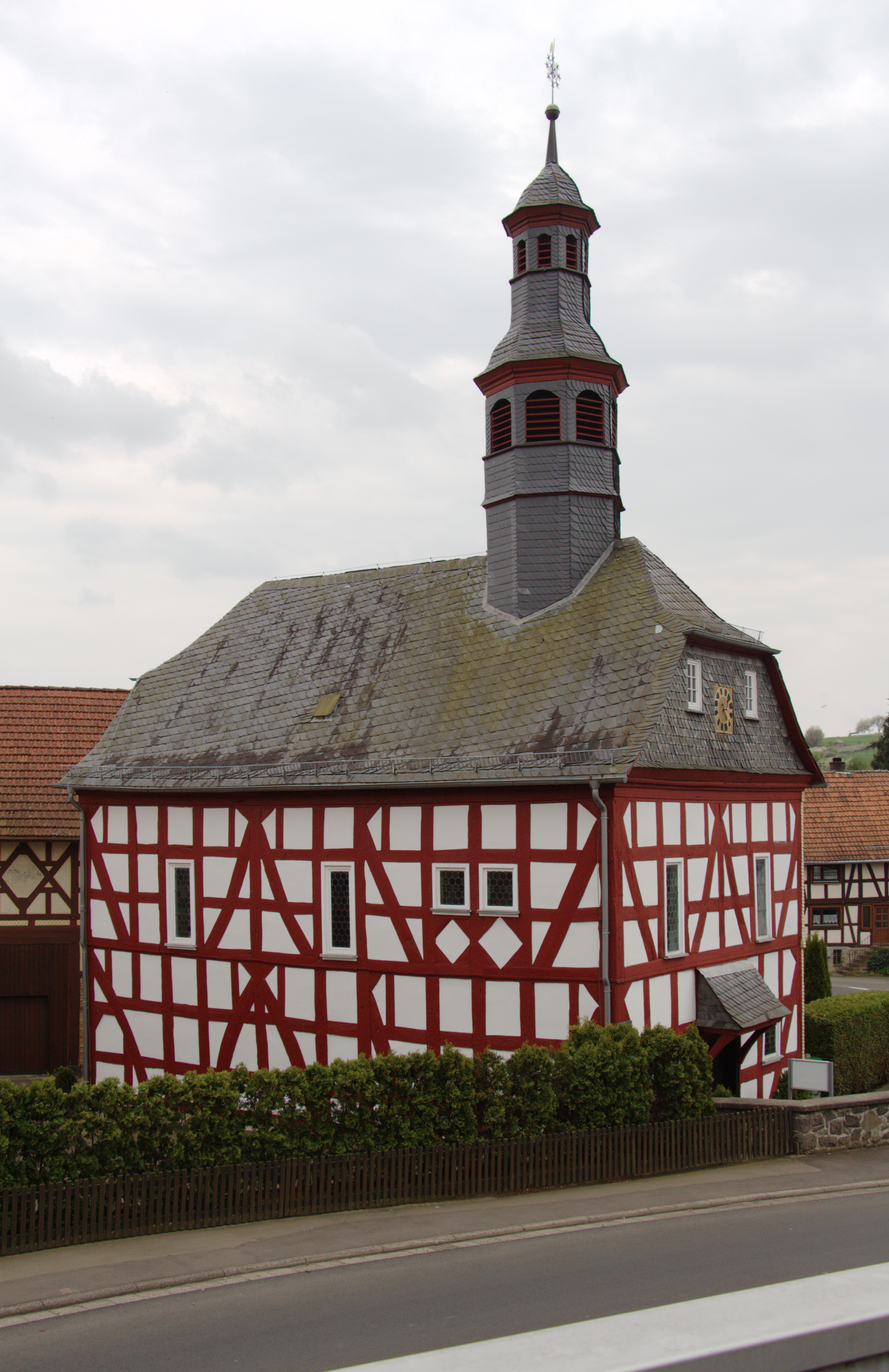 Protestant Church (Half-timbered) in Ermenrod Alsfelder Strasse, Feldatal, Hesse, Germany